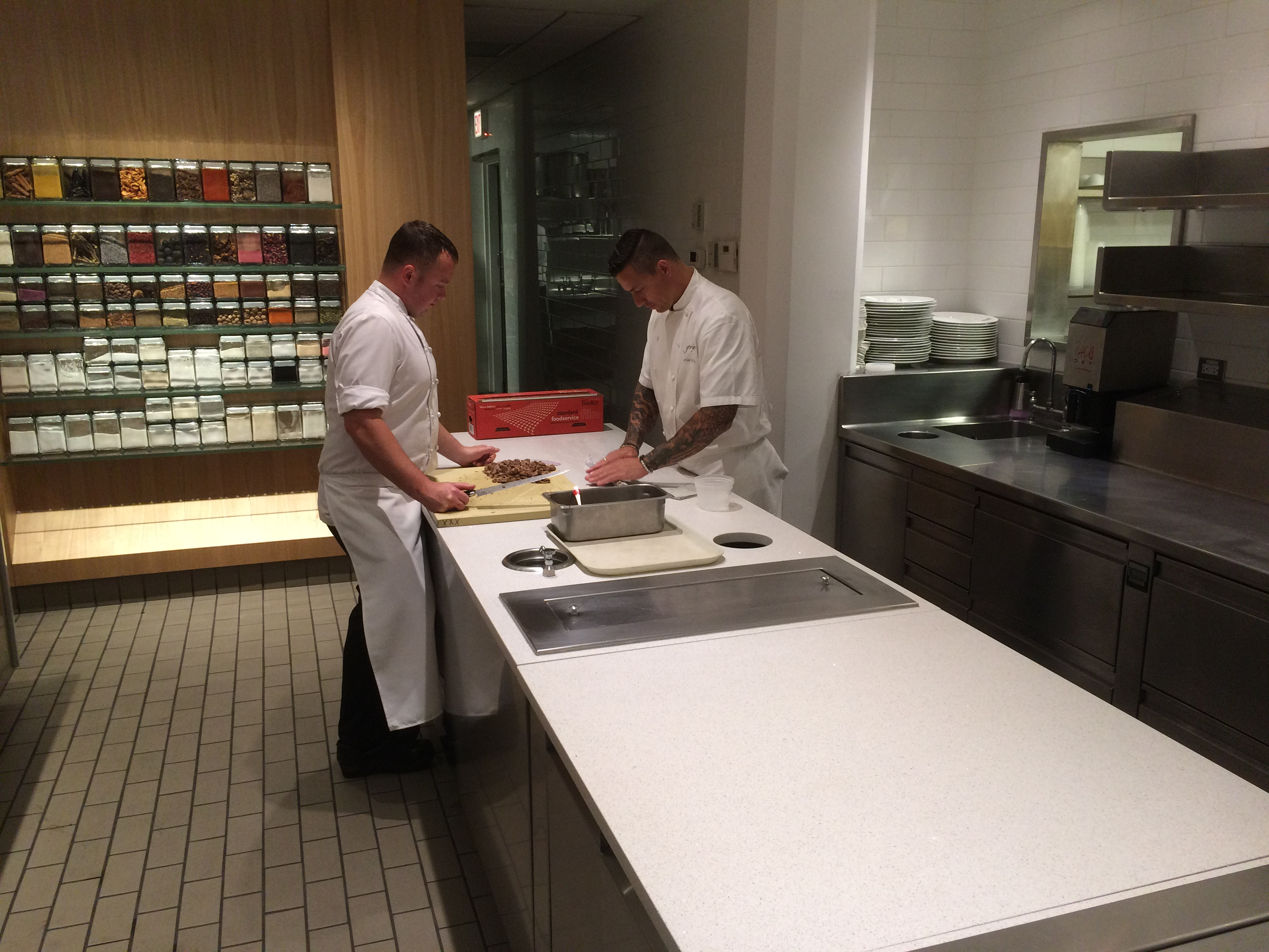 The kitchen of Grace, a restaurant in the West Loop neighborhood in Chicago, Illinois. It had been ranked 3 stars by the Michelin Guide each year from 2015 until it closed in 2017.